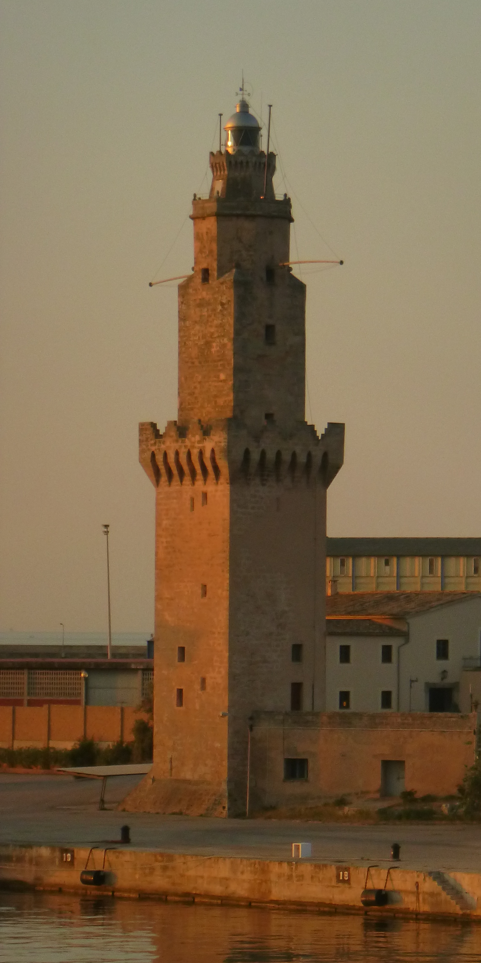 The Lighthouse at Porto Pi, Palma de Mallorca, built in 1612.